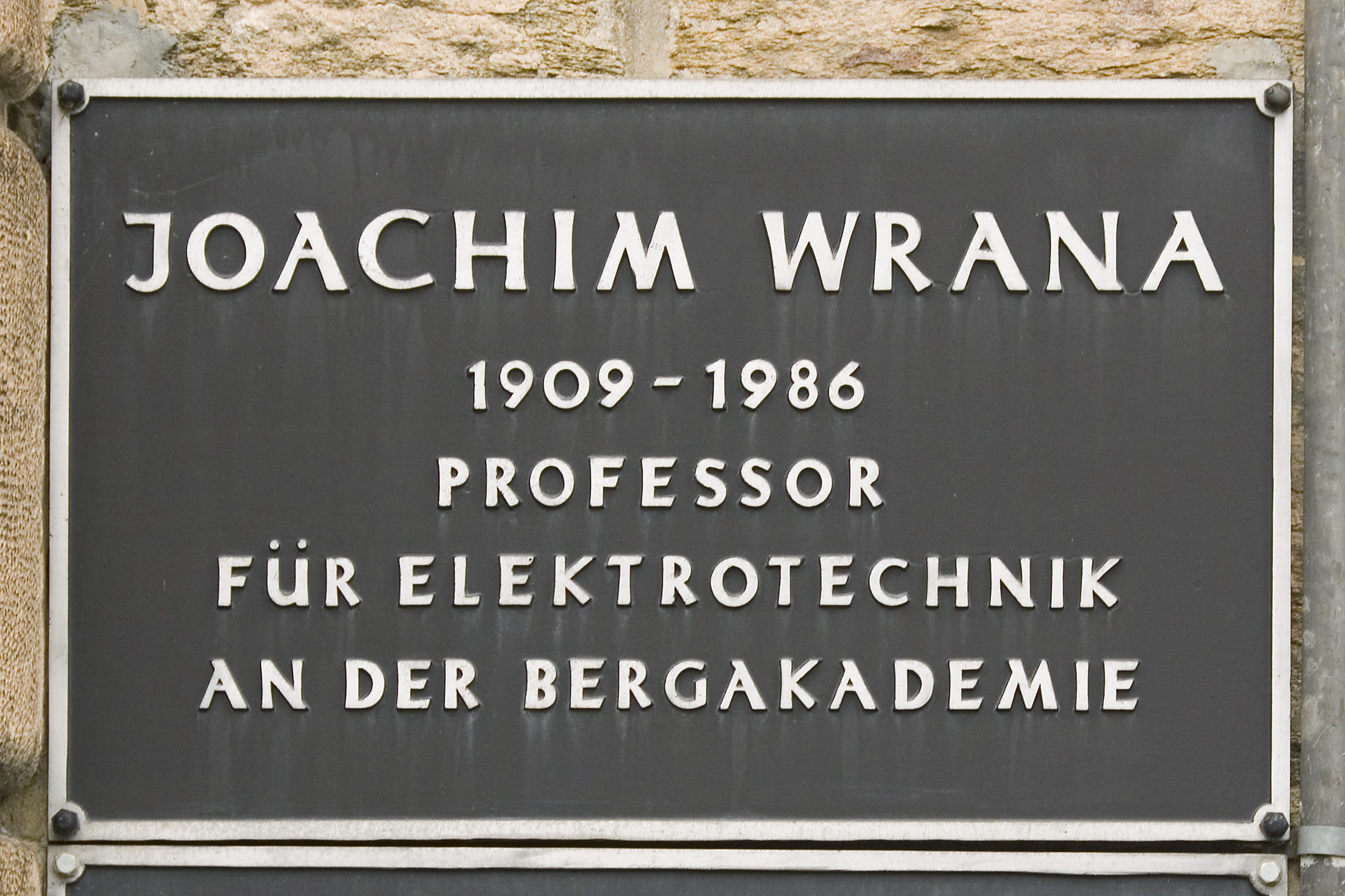 Joachim Wrana, plaque in Freiberg, Saxony